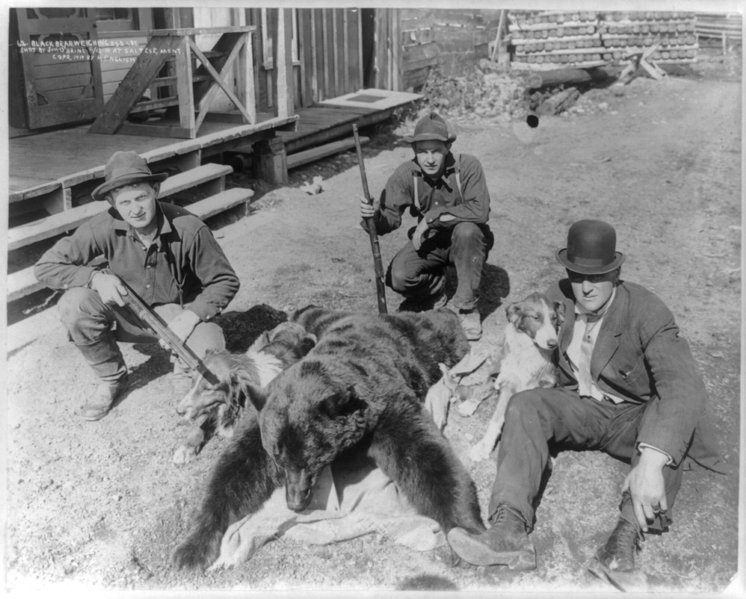 Title: Black bear weighing 252 lbs. shot by Jim O'Brine 5/12/10 at Saltese, Mont. Abstract/medium: 1 photographic print.